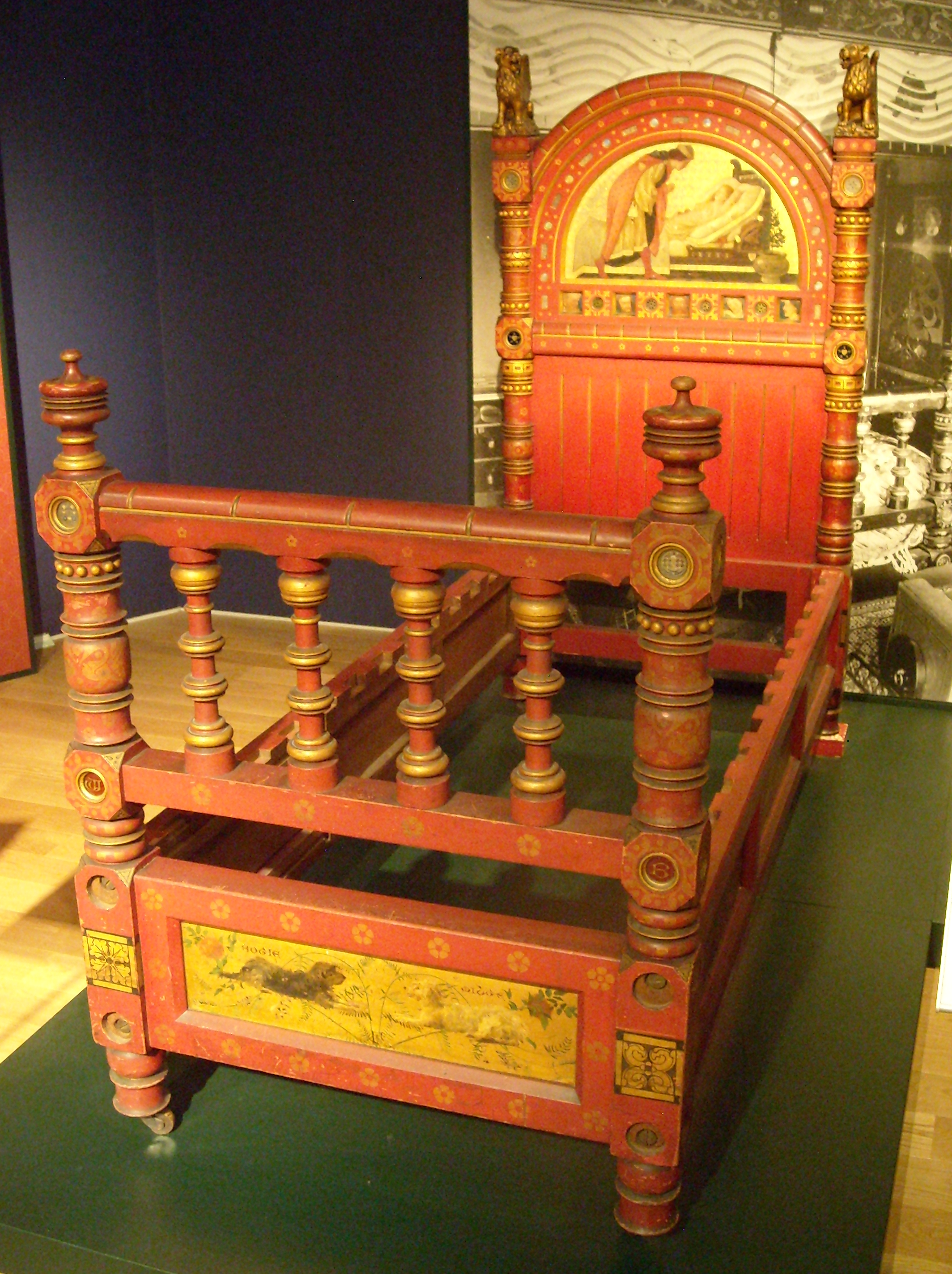 A bed made by William Burges in 1867 and which he used as his own bed, dying in it in 1881. There are paintings of his dogs, Midge and Bogie at the foot of the bed and on the headboard a painting by Henry Holiday of Sleeping Beauty. On display at The Higgins museum and gallery in Bedford.